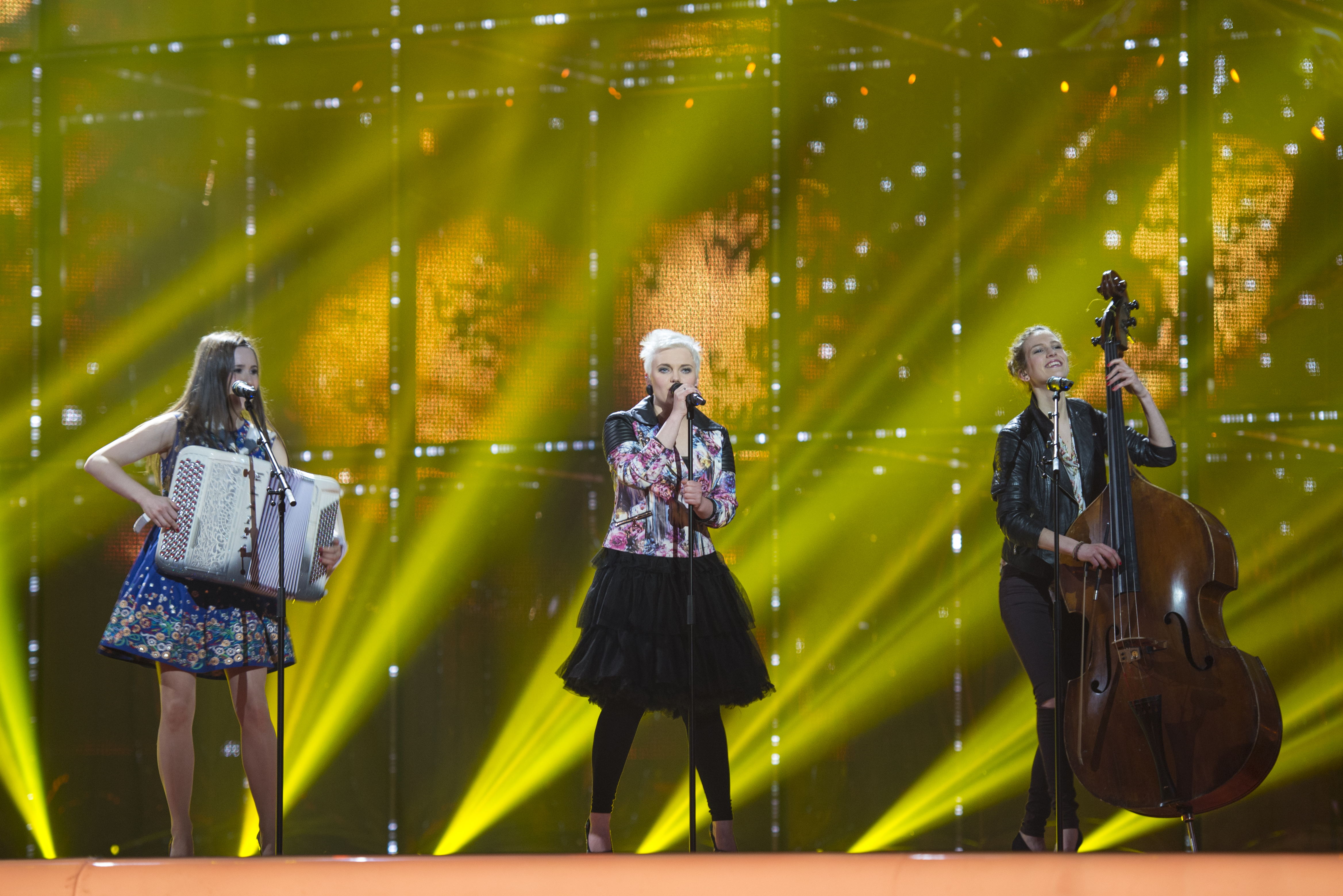 Elaiza representing Germany with the song "Is It Right" during the first dress rehearsal of the final of the Eurovision Song Contest 2014 Copenhagen. (Help translate this text)